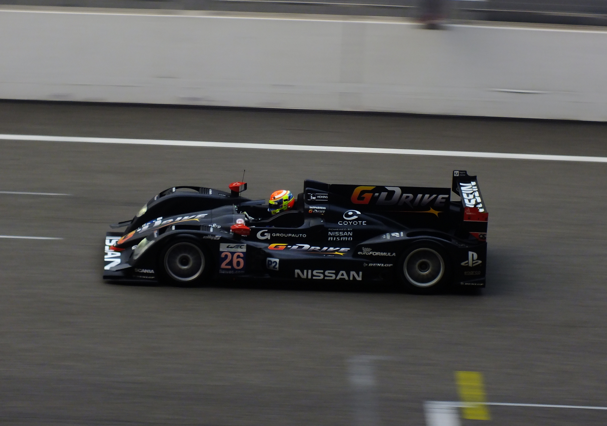 Nelson Panciatici in the Signatech Nissan Oreca 03-Nissan at the 2012 6 Hours of Shanghai